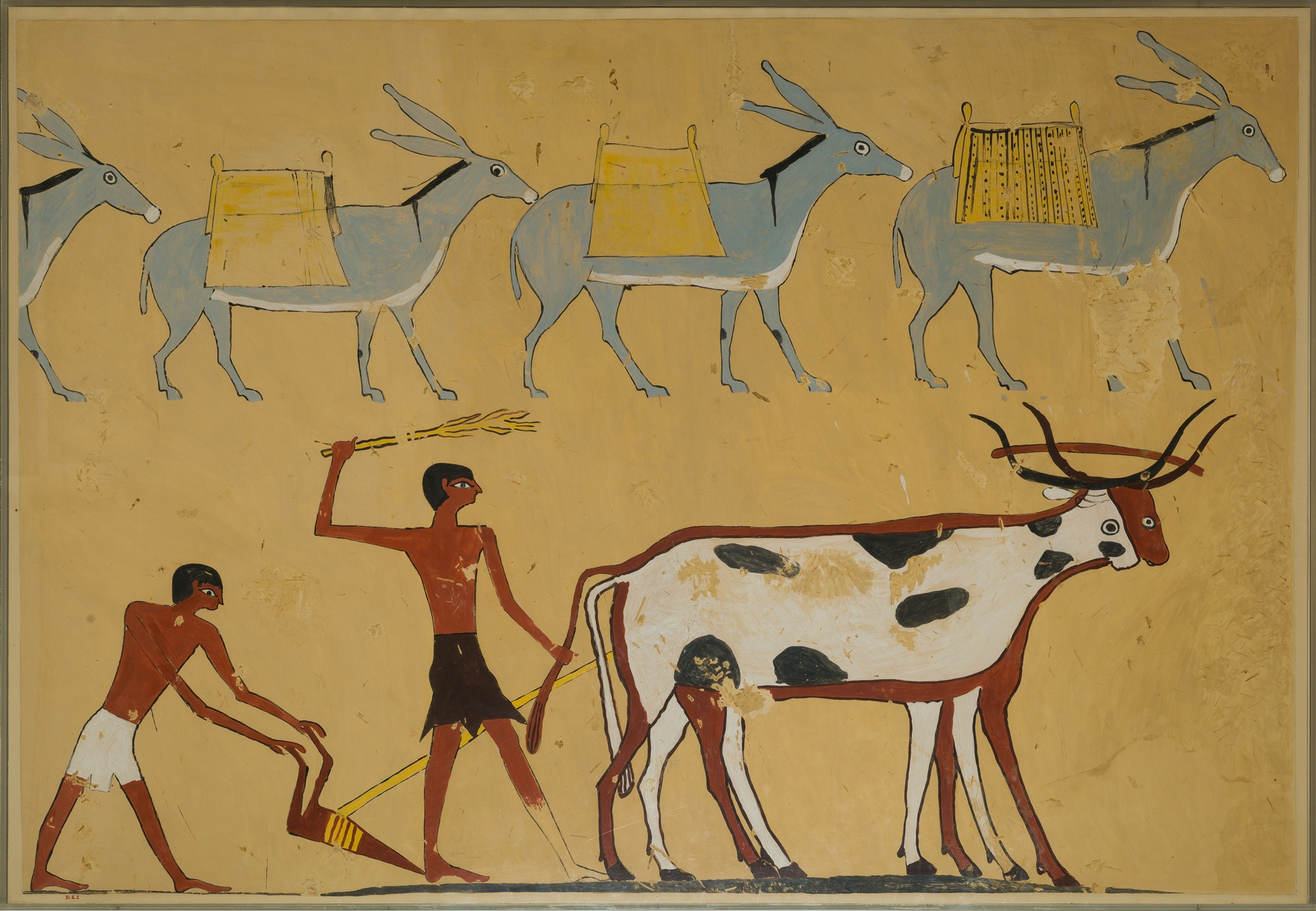 Facsimile, Djari (TT 366, MMA 820), plowing, donkeys